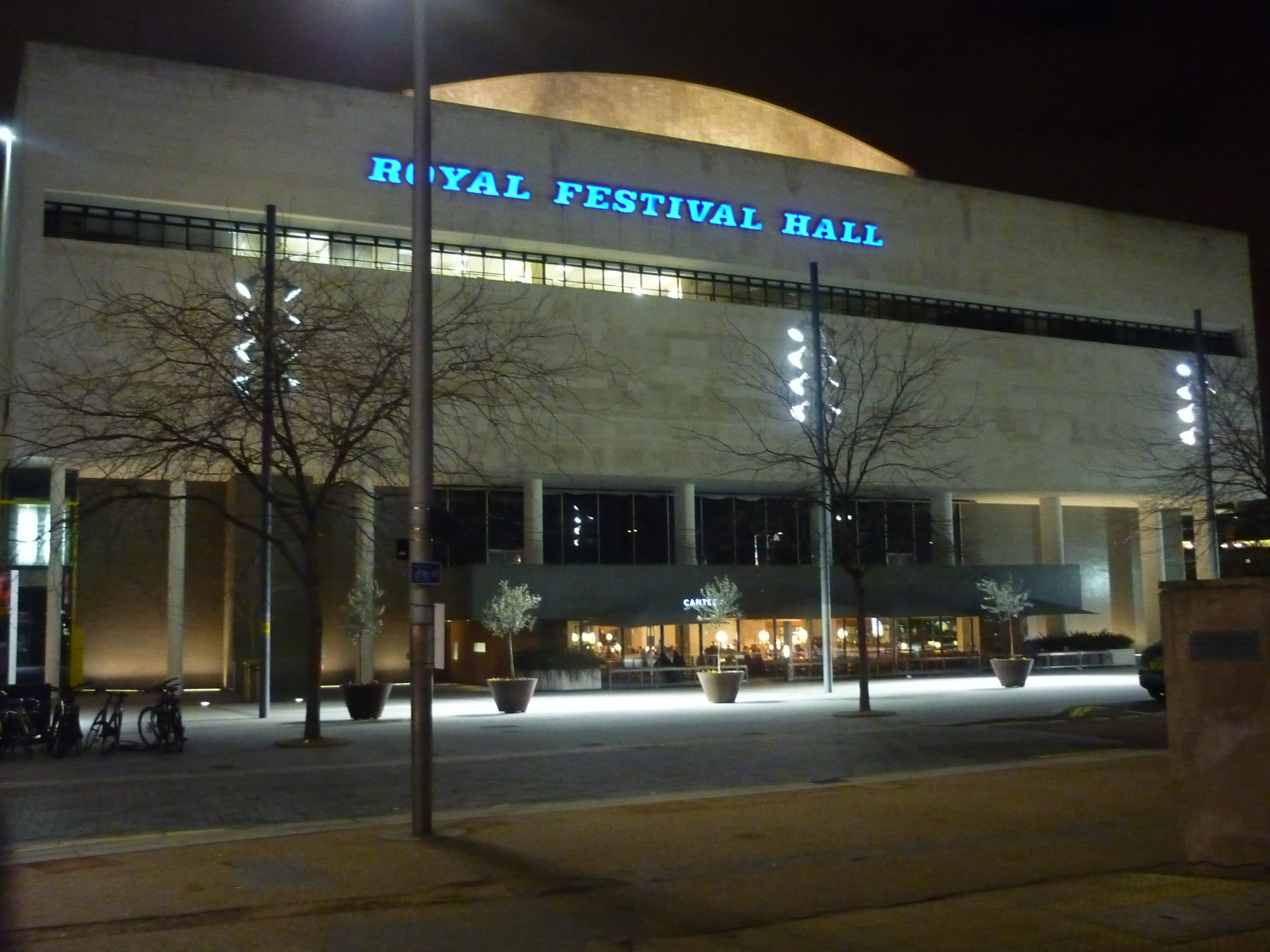 Royal Festival Hall (1951), London For more on the architecture of this Grade I listed building visit